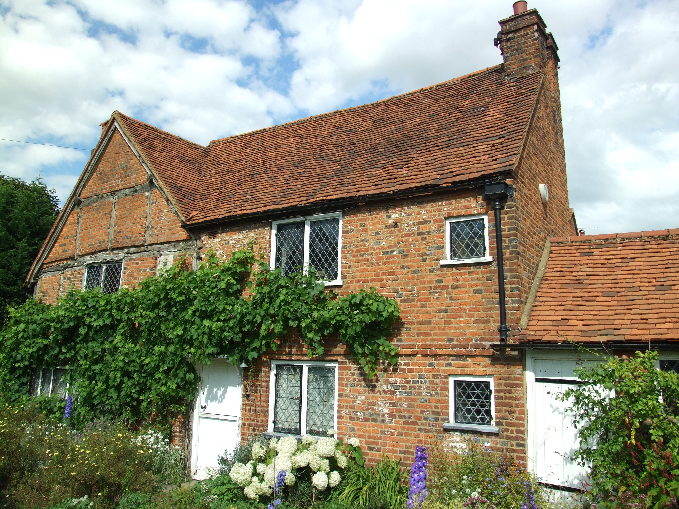 English Poet most famous for PARADISE LOST. His Cottage, now a museum dedicated to his life.